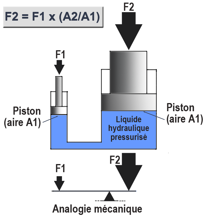 Hydraulic force ratio principle